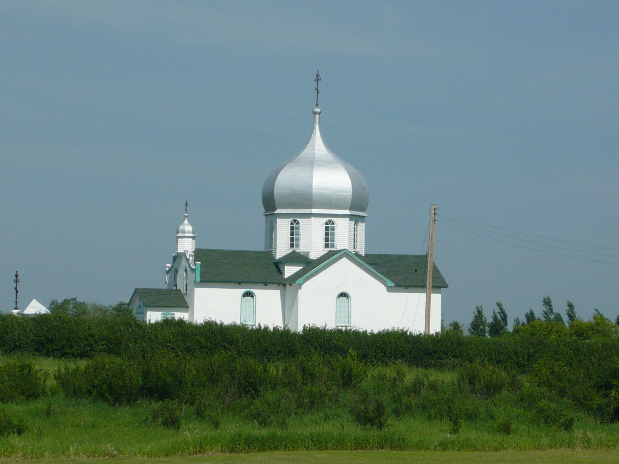 Saints Peter and Paul Ukrainian Orthodox Church, Railway Avenue, Village of Krydor, Saskatchewan, Canada.